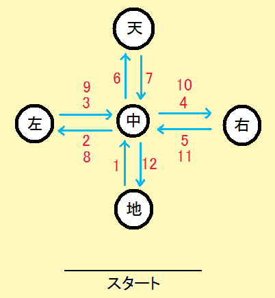 BIDAN is Japanese old game often played/having been played among children. This is the most orthodoxical playing formation of BIDAN.